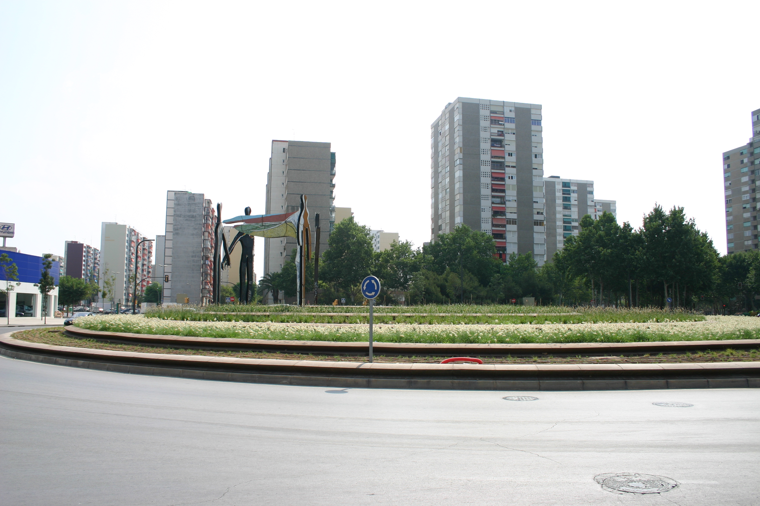 Roundabout of Rambla Marina and Travessia Industrial